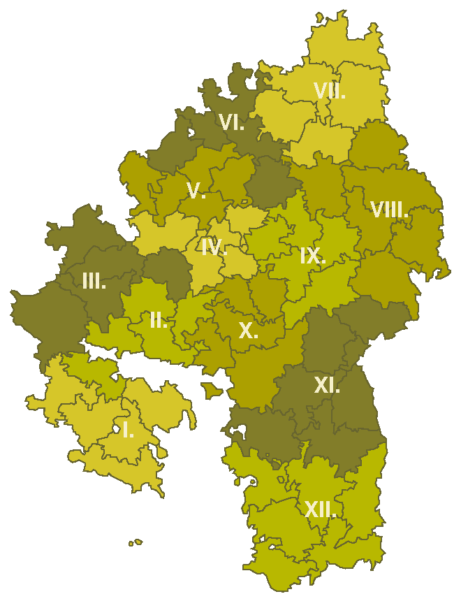 Map of the "Landvogteien" (administrative divisions) of Württemberg between 1810 and 1818. May contain minor (but hardly noticeable) inaccuracies because reallocations of invididual municipalities between 1810 and 1835 have not been taken into account.